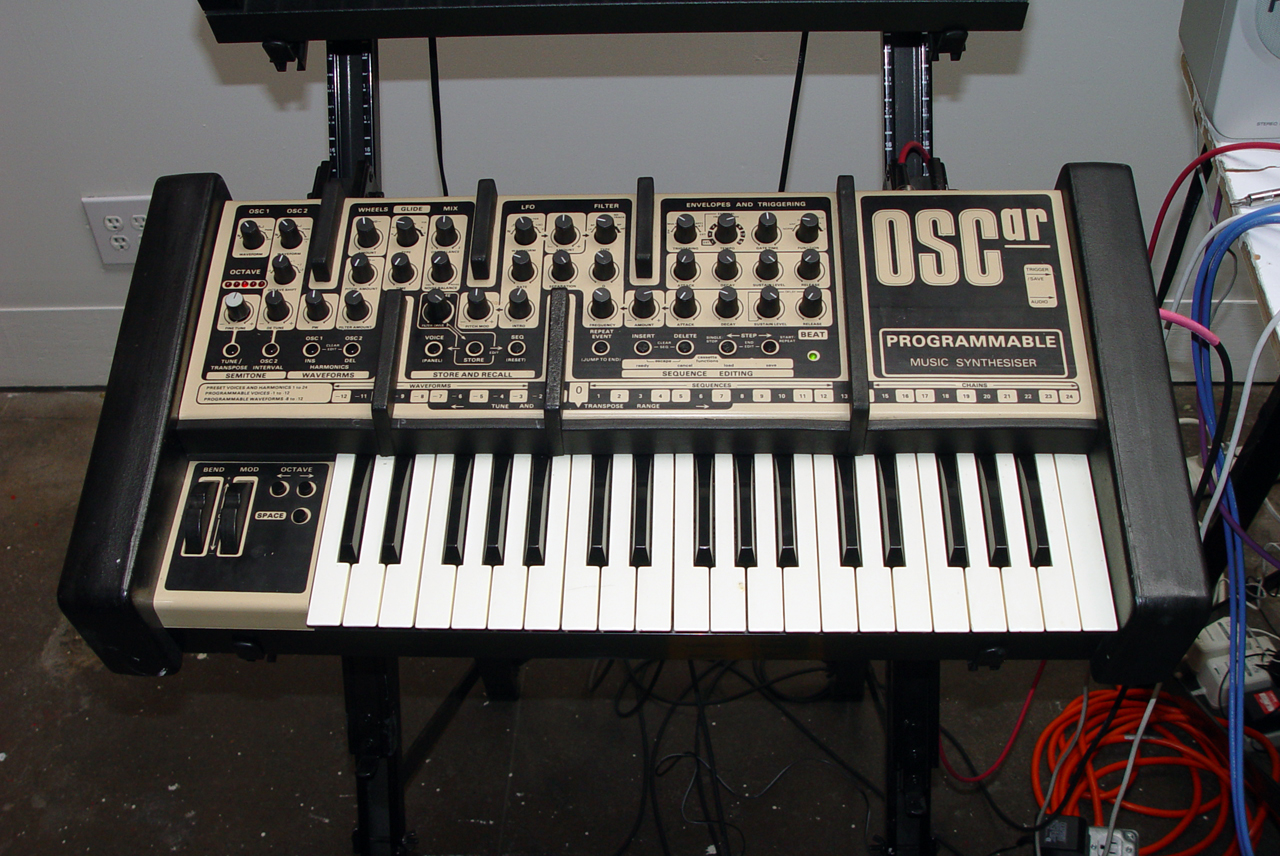 OSC Oscar not so close. See also : Oxford Synthesizer Company OSSCar